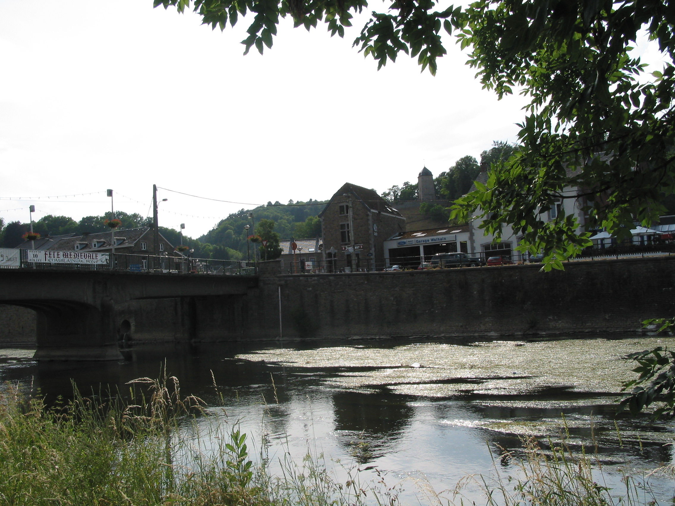 Comblain-au-Pont (Belgium), the bridge on the Ourthe river.